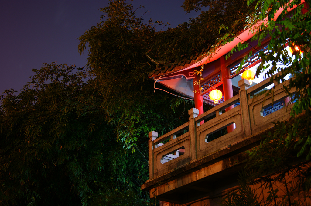 Saddle Mountain at Liuzhou